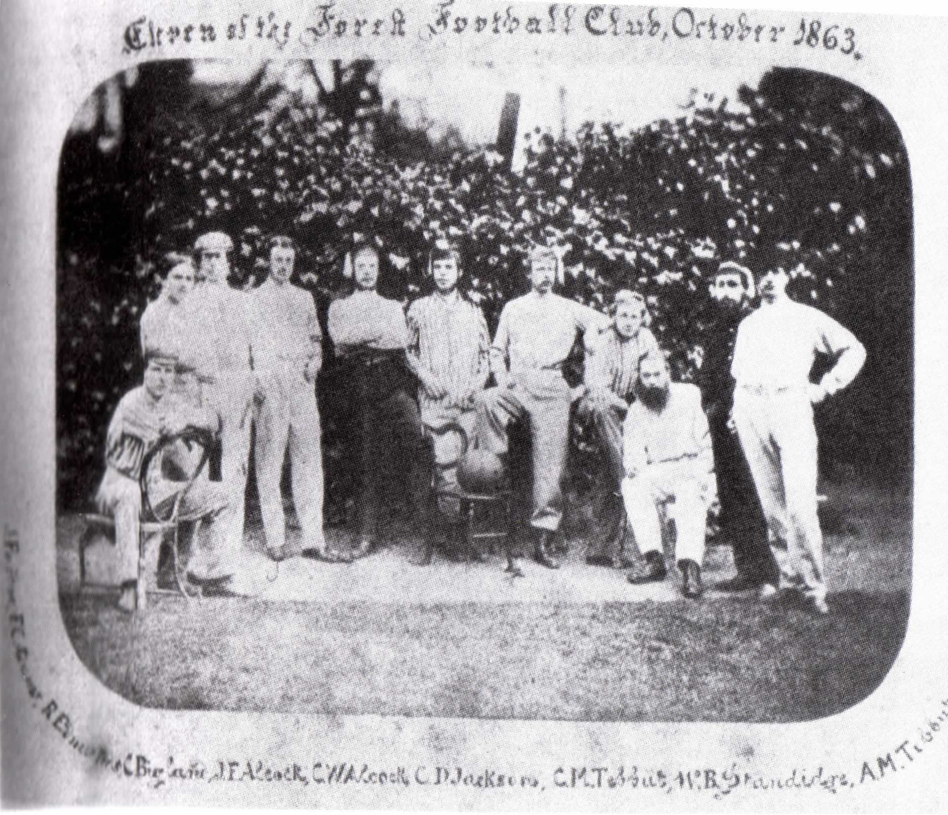 A team photo of Forest FC (later renamed as "Wanderers F.C.").